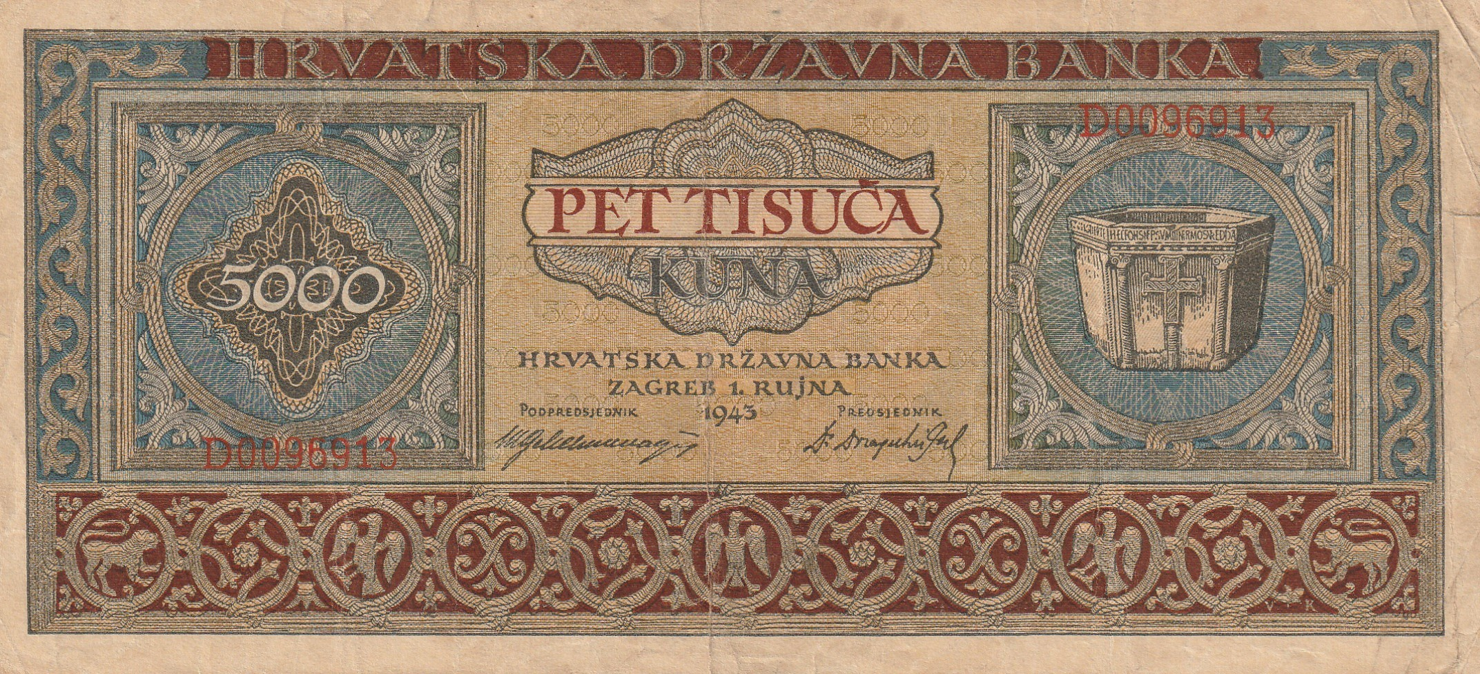 5000 kuna 1. rujna 1943.